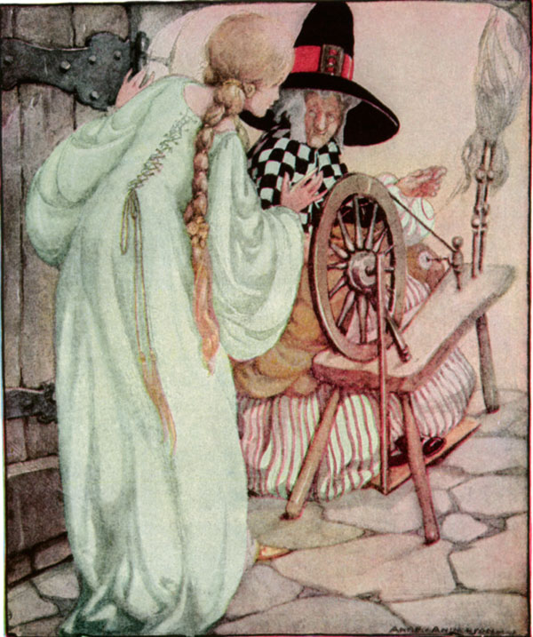 Old, Old Fairy Tales: "Briar Rose" by Anne Anderson. Aurora pricked her finger on the witches spindle...